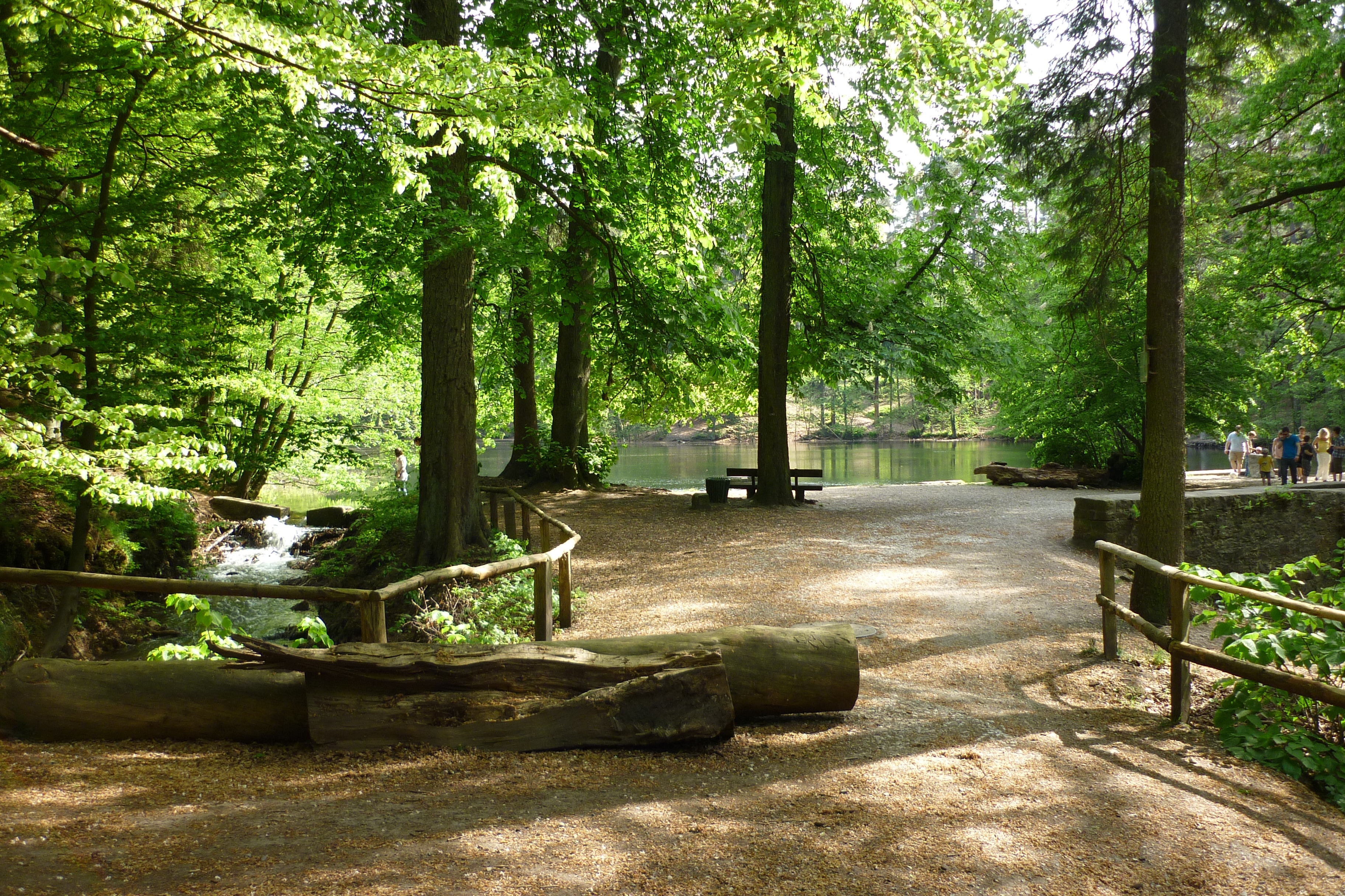 Detmold (Germany), Donop's Pond in Teutoburg Forest